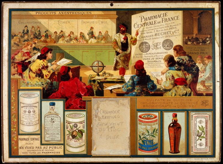 L0031333 Credit: Wellcome Library, London A professor teaching pharmacy to students in mid-16th century Paris; representing a calendar advertising products of the Pharmacie Centrale de France. Colour lithograph, after 1889. Coloured Lithograph 1890-1899 By: Pharmacie Centrale de France et Maison Droguerie Menier Published: [Pharmacie Centrale de France],[Paris?] : [after 1889] Printed: Lith. J. Minot, Editeur)(Paris : Size: sheet 28 x 37.7 cm. Collection: Iconographic Collections Library reference no.: ICV No 51428 Full Bibliographic Record Link to Wellcome Library Catalogue Copyrighted work available under Creative Commons by-nc 2.0 UK: England & Wales